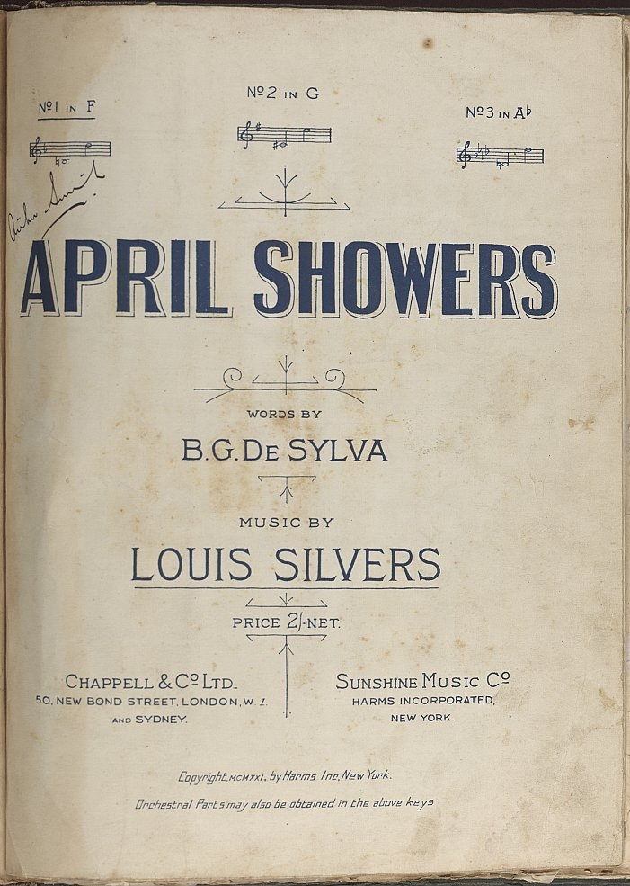 Sheet music cover of "April Showers".